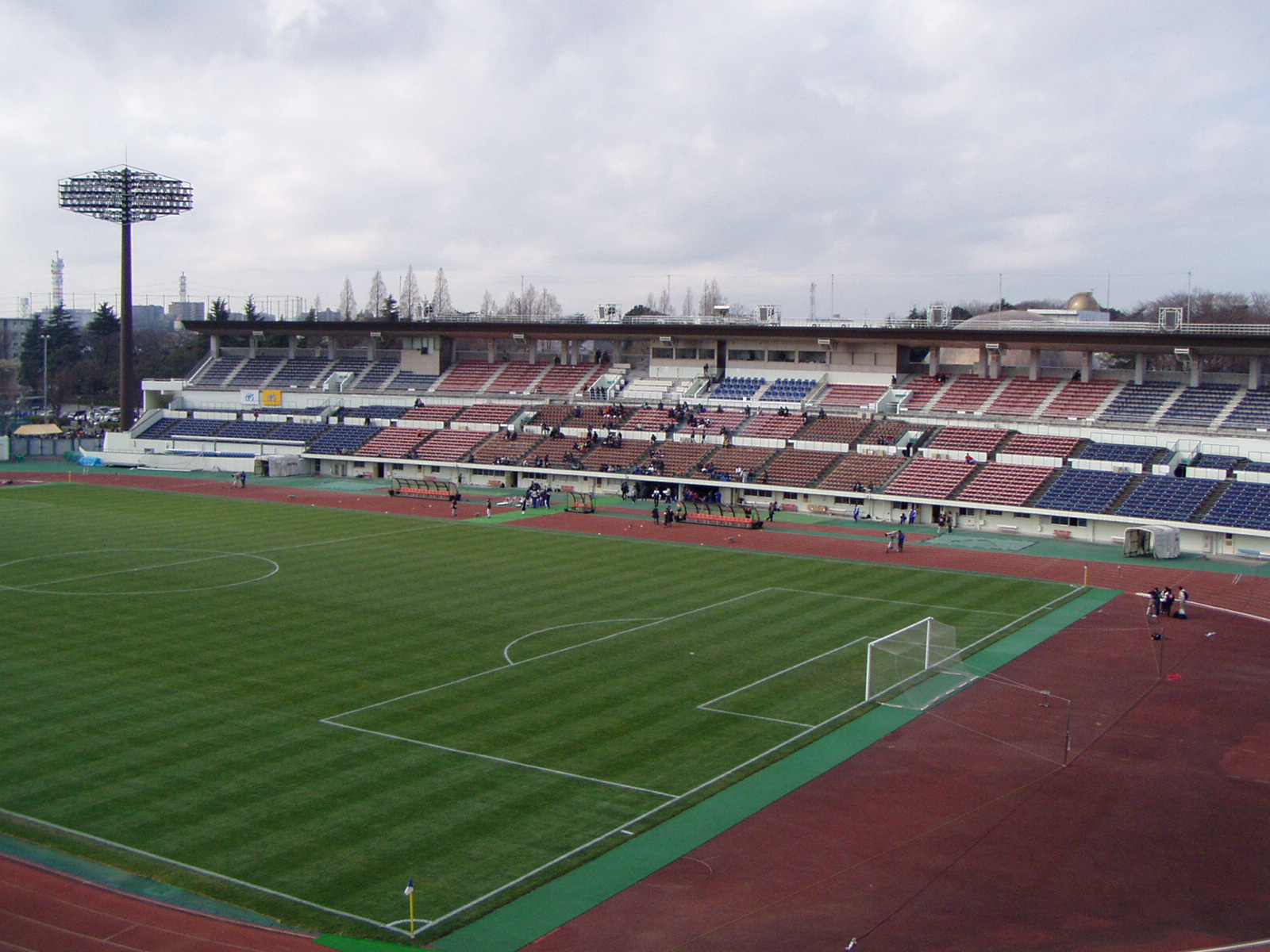 Saitama-shi Komaba stadium.